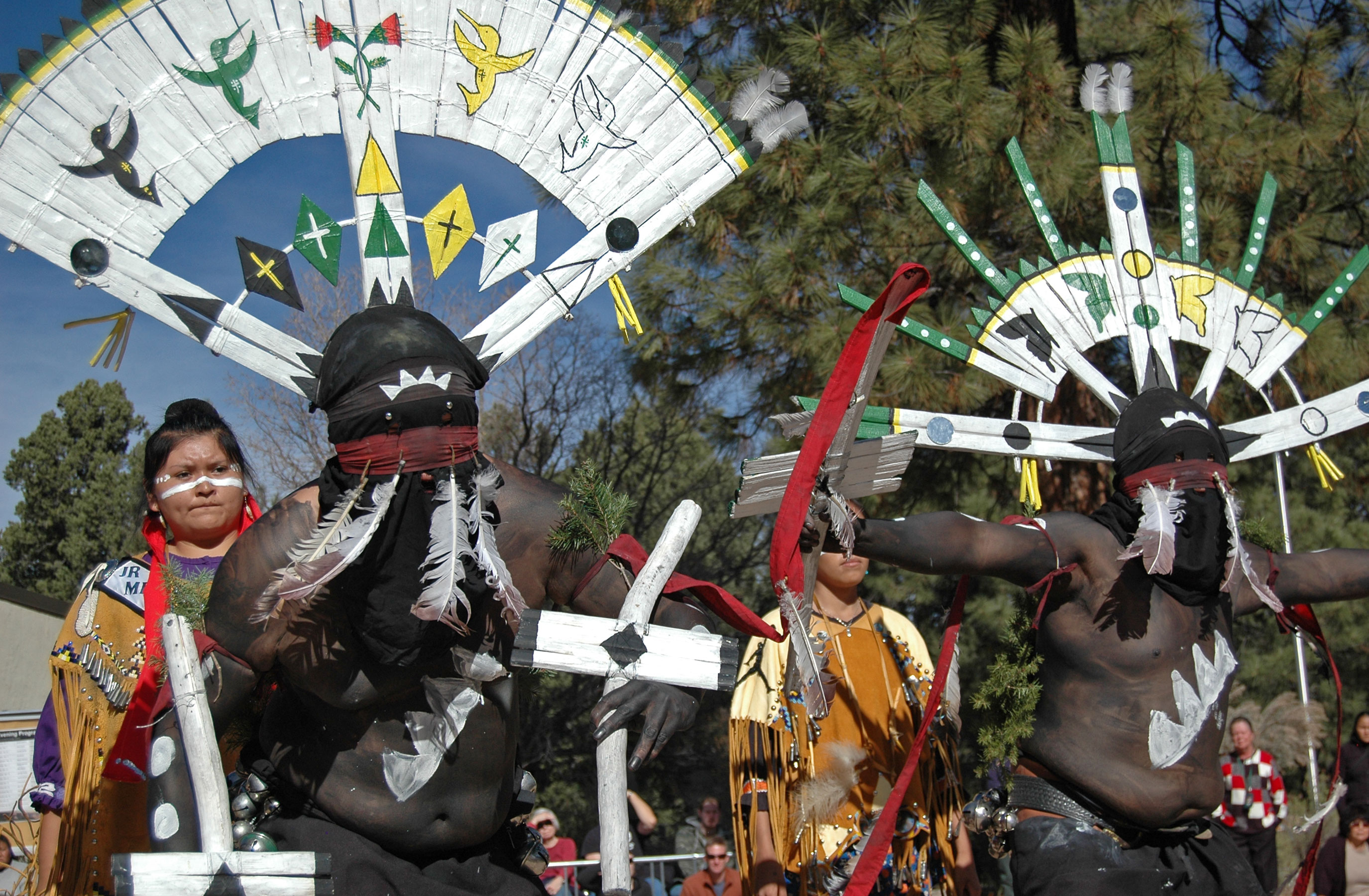 On, Thursday, November 18, Grand Canyon National Park celebrated Native American Heritage Month with a day of special events. . . In this photo, the Dishchii' Bikoh' Apache Group from Cibecue, Arizona, demonstrates the Apache Crown Dance.. . Native American Heritage Month is a time to pay tribute to the many accomplishments, contributions and sacrifices of the indigenous peoples of North America.. . What started at the turn of the century as an effort to gain a day of recognition for the significant contributions the First Americans made to the establishment and growth of the United States has resulted in a whole month being designated for that purpose.. . This is the second year that Grand Canyon National Park has celebrated Native American Heritage Month. Our celebration will continue to grow and evolve as we strengthen the relationships with our associated tribes.. . NPS Photo by Erin Whittaker.